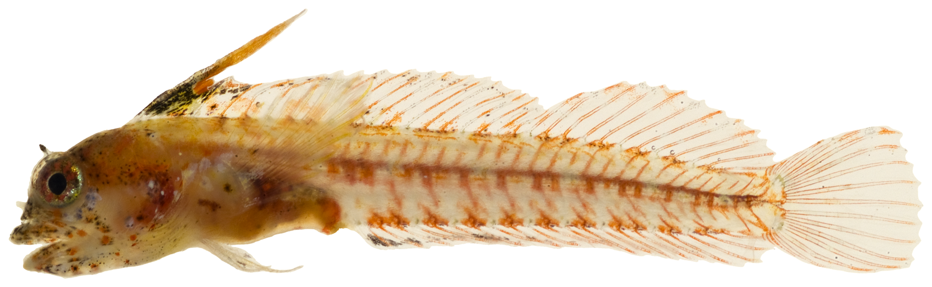 Emblemariopsis cf signifer (Ginsburg, 1942)—flagfin blenny, 16.2 mm SL, adult male, this specimen represents an undescribed species in the signifer species complex. Photo by JT Williams.